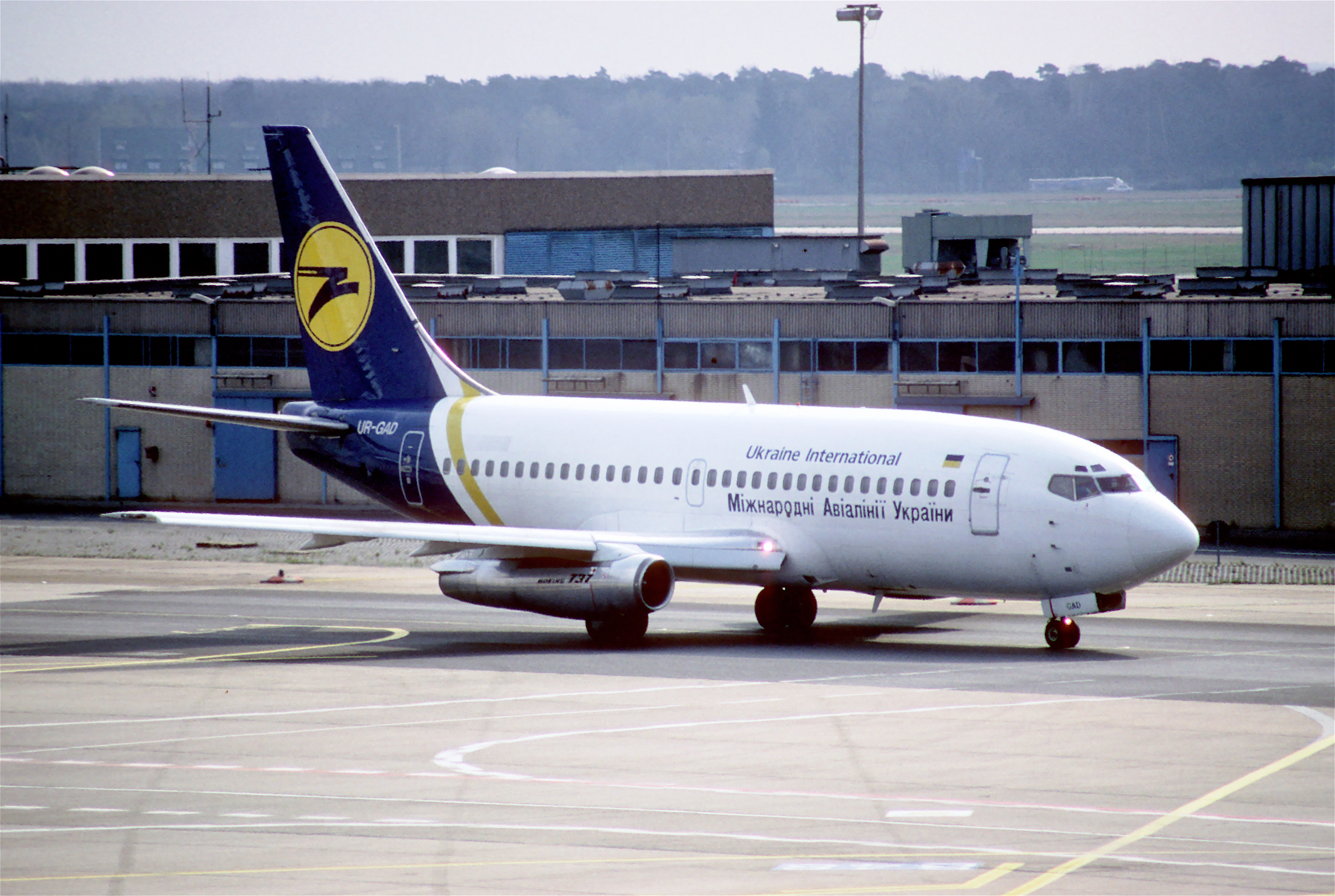 18bg - Ukraine International Airlines Boeing 737-2T4; UR-GAD@FRA;01.04.1998